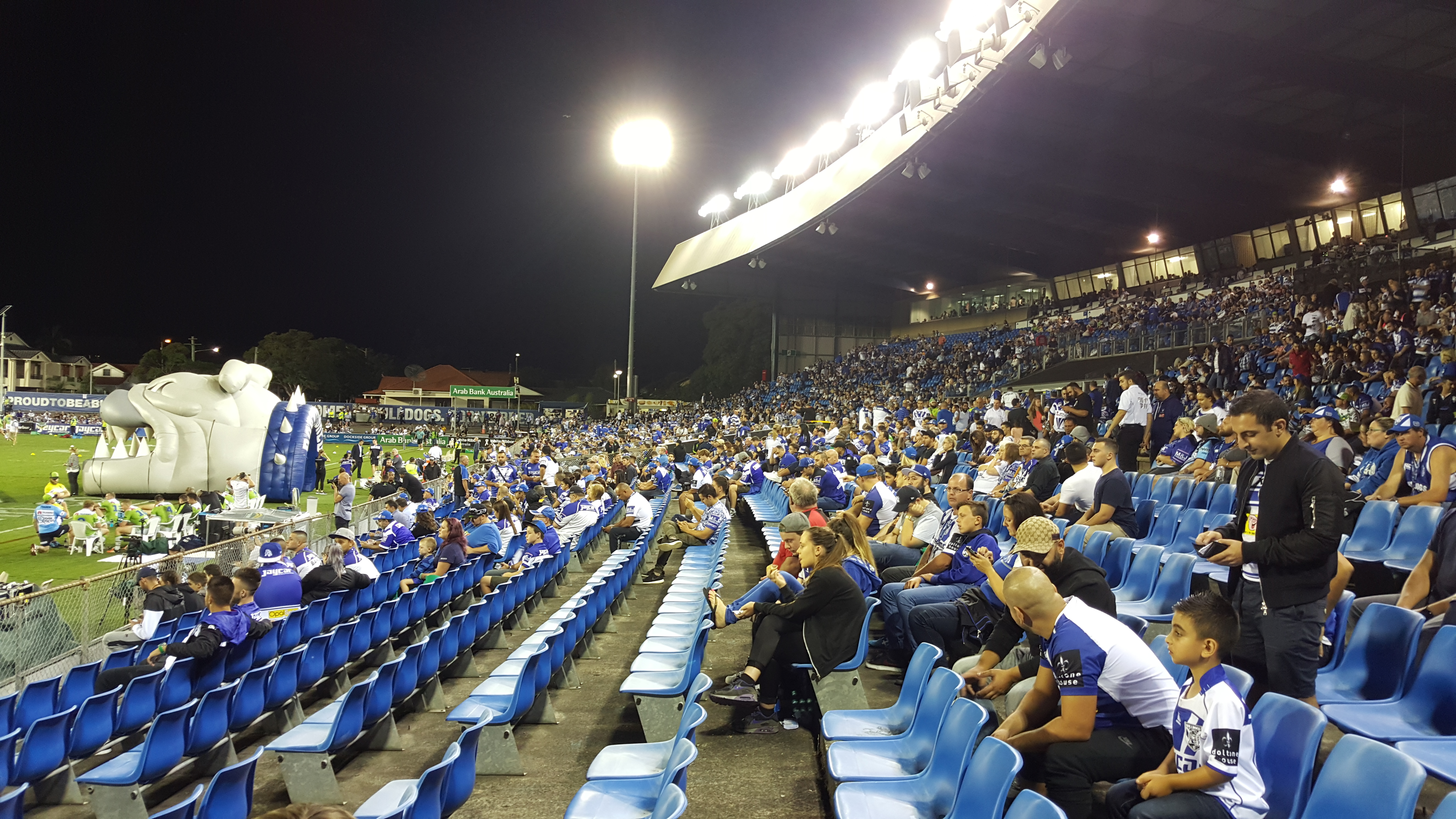 Belmore Oval, Crowd at 2016 "Return to Belmore" match, though the Bulldogs lost to the Canberra Raiders